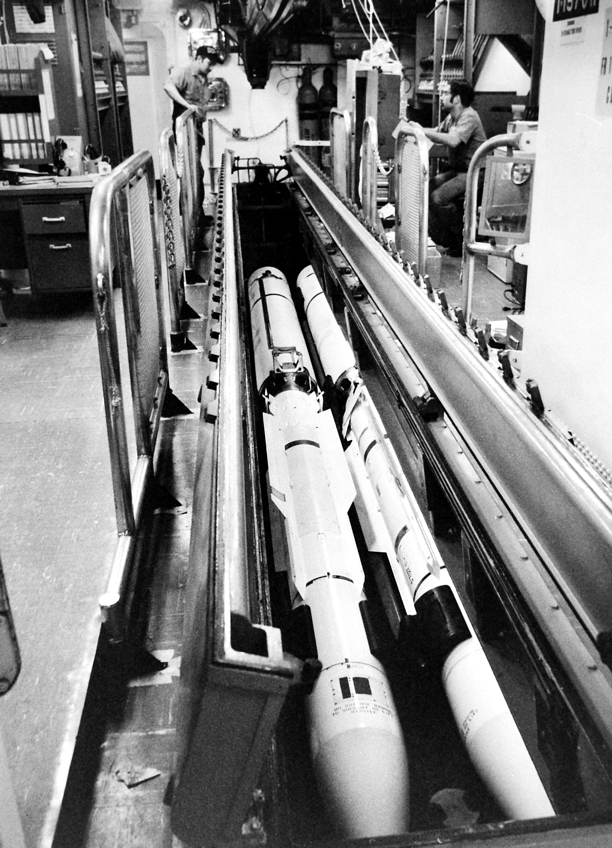 RIM-67 Standard ER missiles are loaded on the missile house rail aboard the U.S. Navy guided missile destroyer USS Mahan (DDG-42) on 1 March 1983. The missiles were fired as part of the test and evaluation of the New Threat Upgrade (NTU) combat system.